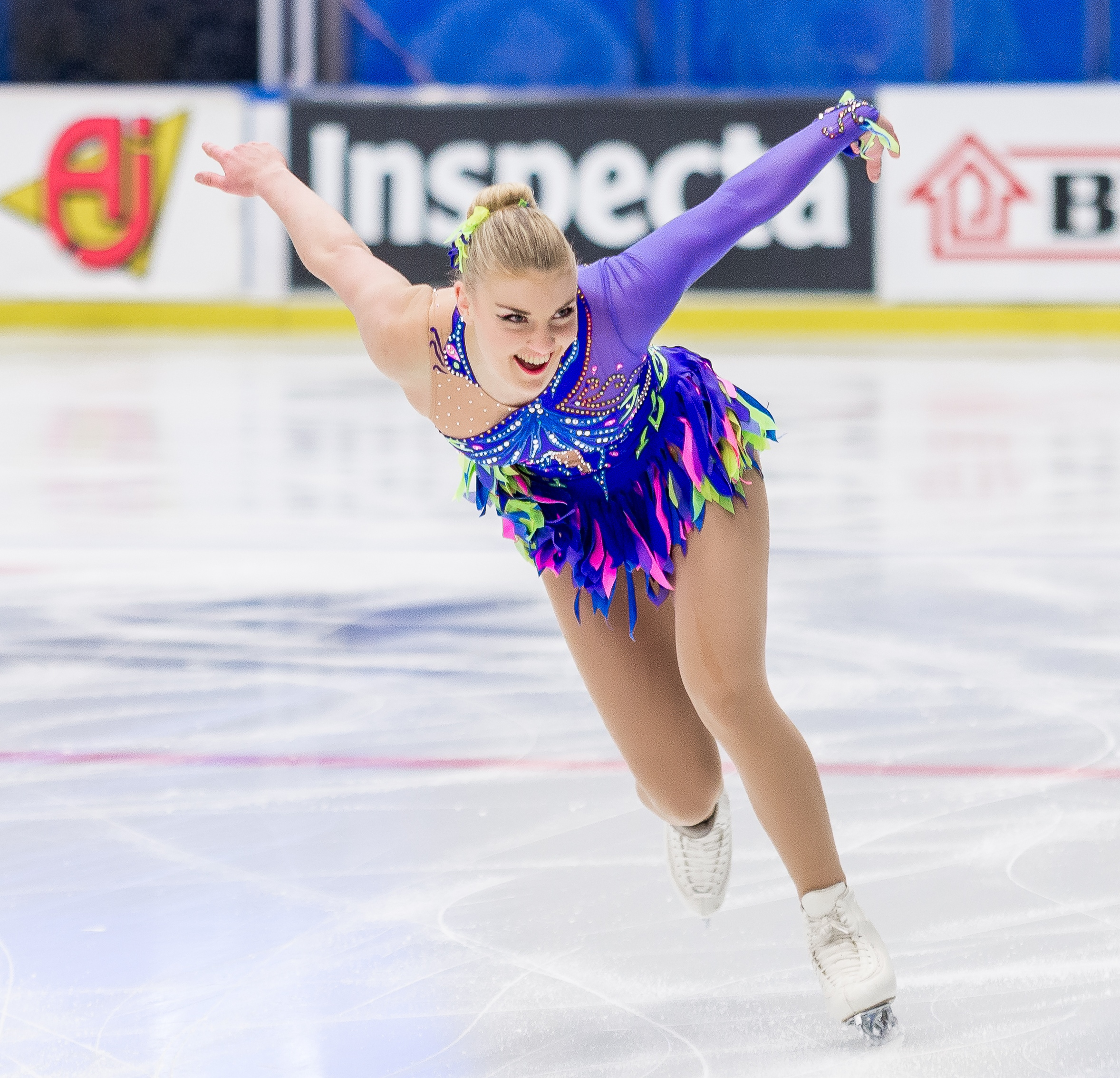 Swedish figure skater Joshi Helgesson performing her short program at the 2013 Swedish figure skating champrionships at VIDA Arena in Växjö